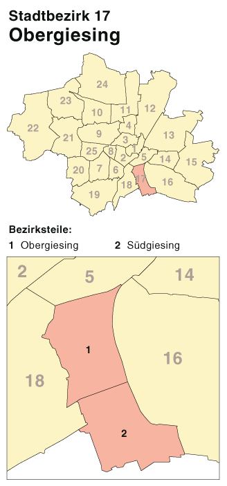 Boroughs of Munich map series